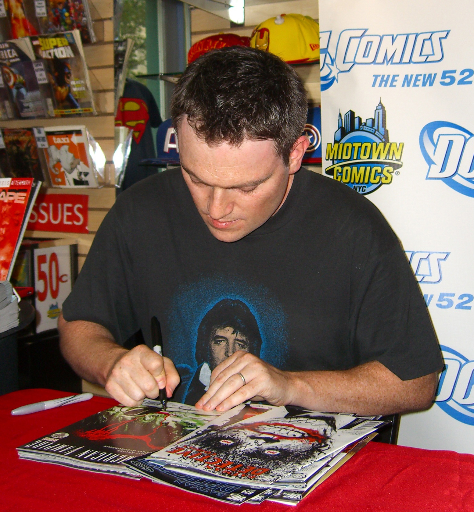 Comic book creator Scott Snyder at a September 21, 2011 book signing for Batman (volume 2) #1 and Men of War #1 at Midtown Comics Downtown in Manhattan, as part of DC Comics' New 52 relaunch. Photographed by Luigi Novi. This photo is not in the public domain. It may, however, be used, modified and published for any purpose, free of charge, only if the photographer is properly credited, either by linking the photograph to this page, or with an easily visible credit to the photographer placed near the photo in each instance in which it is used. (See licensing information below.) Publication of this photo without this proper attribution constitutes copyright infringement. If you have any questions, you can contact me on my Wikipedia Talk Page.